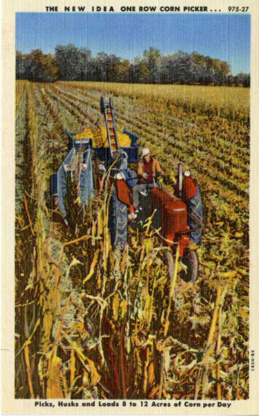 The NEW IDEA one row corn picker